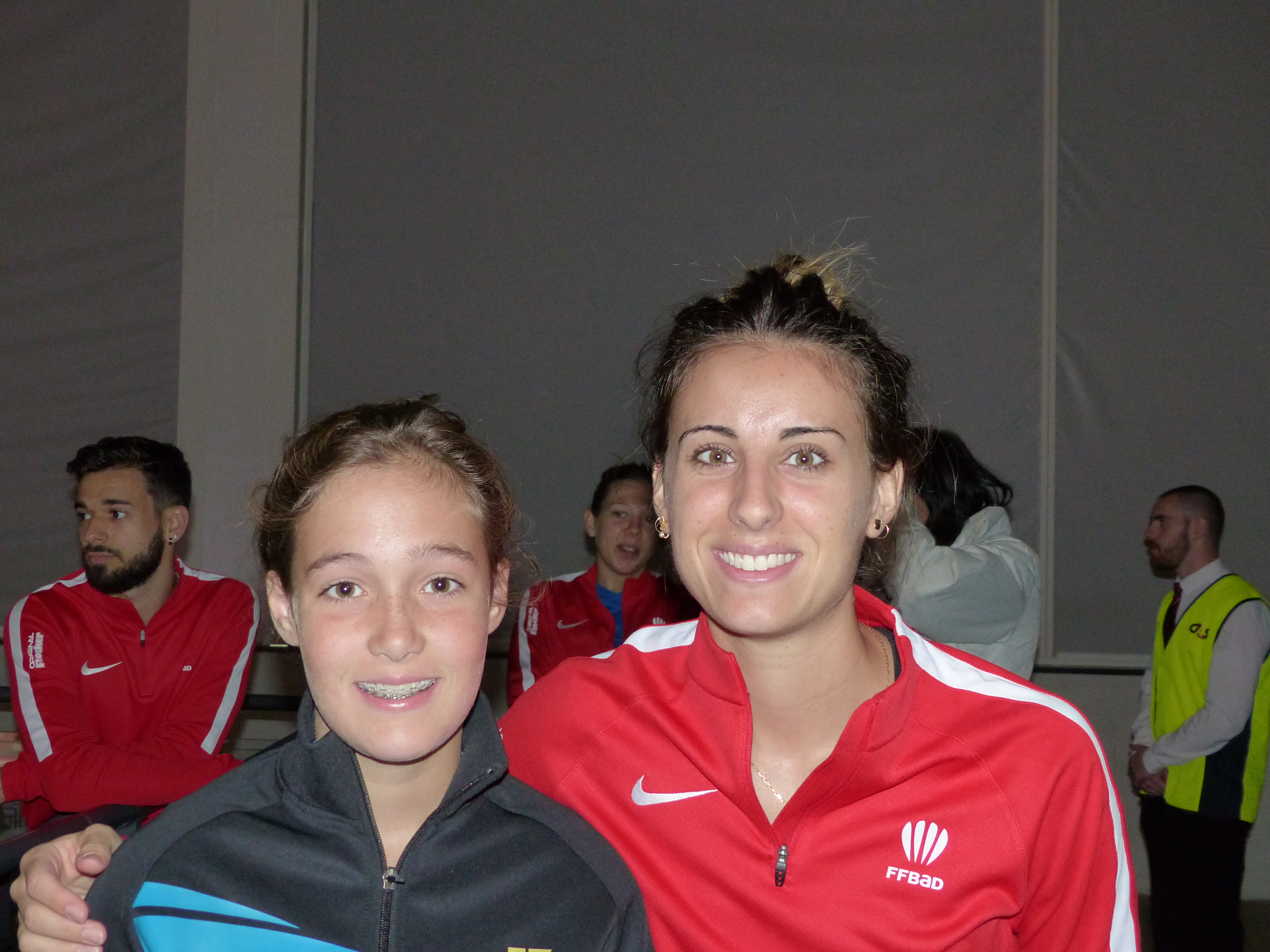 Lea Palermo, joueuse de l'équipe de France